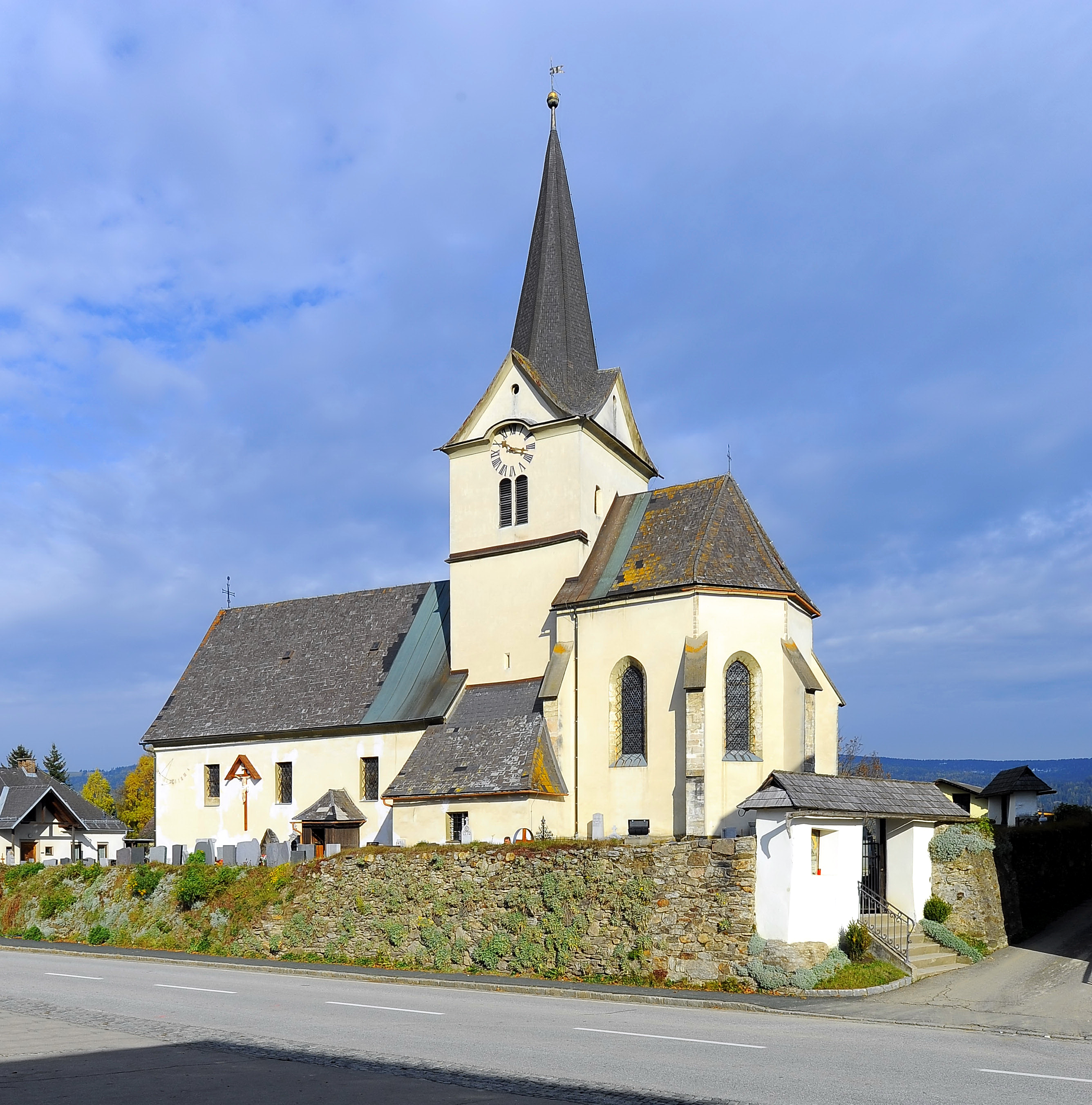 Parish church Saint Nicholas at Preitenegg, municipality Preitenegg, district Wolfsberg, Carinthia / Austria / EU